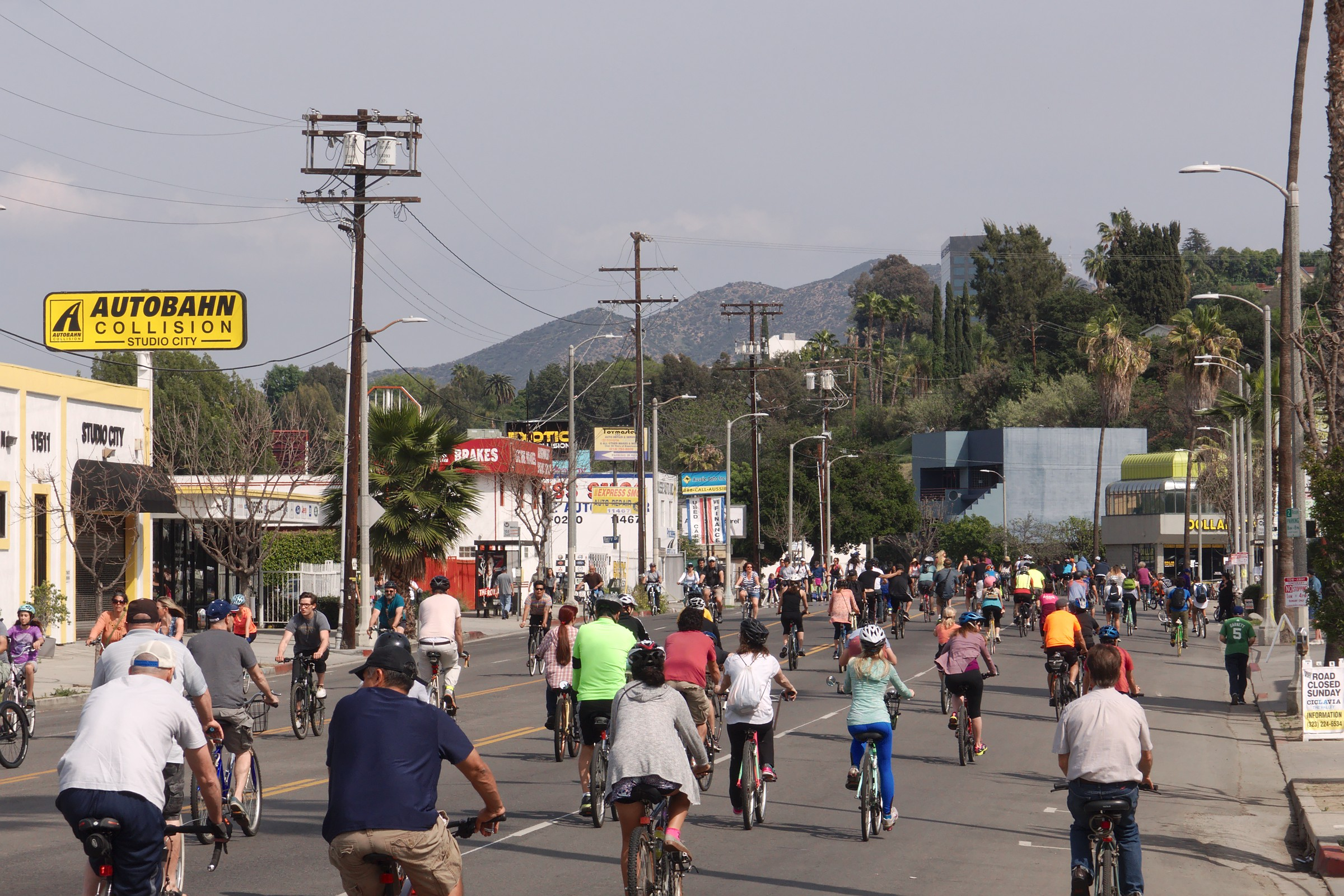 Heading east on Ventura Boulevard in Studio City during CicLAvia - The Valley.